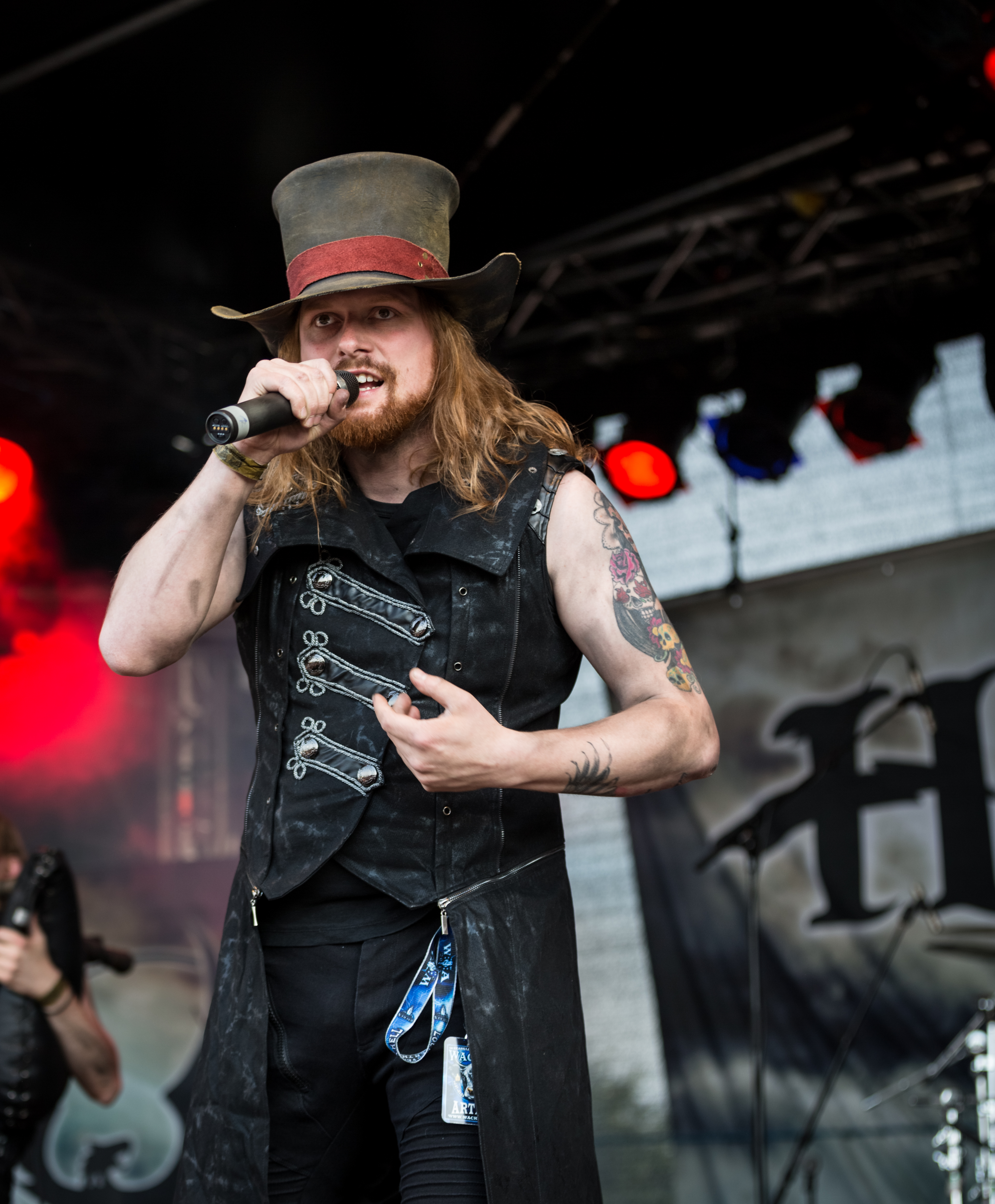 Harpyie - Wacken Open Air 2015